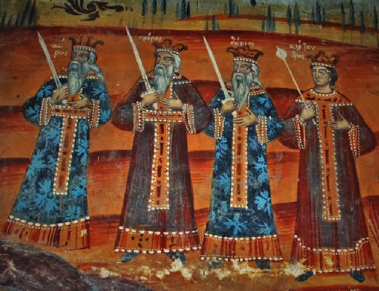 Saint Achillius Church in Pentalofos Zoupan Church Fresco 1774